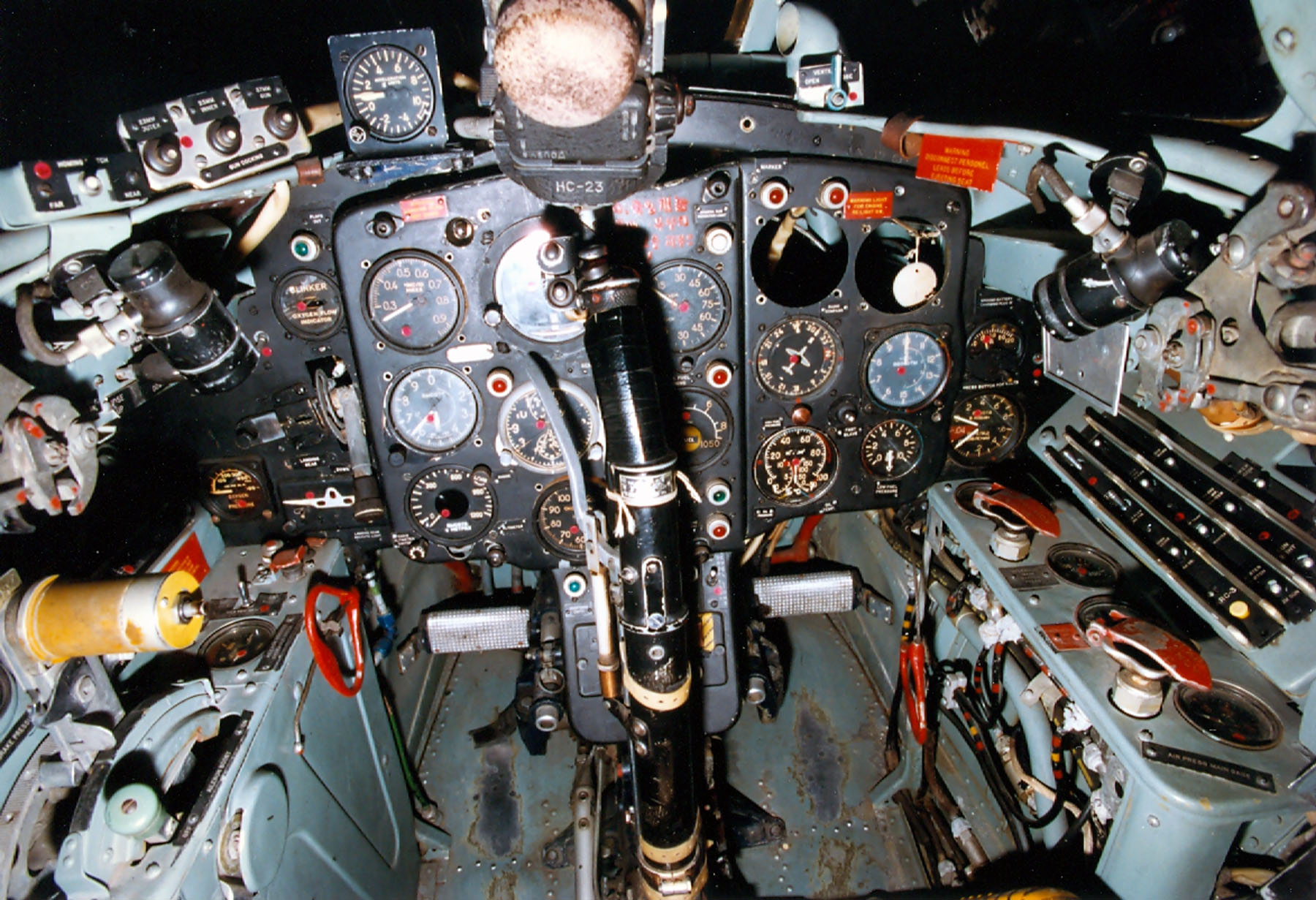 Mikoyan-Gurevich MiG-15 cockpit at the National Museum of the United States Air Force. (U.S. Air Force photo)